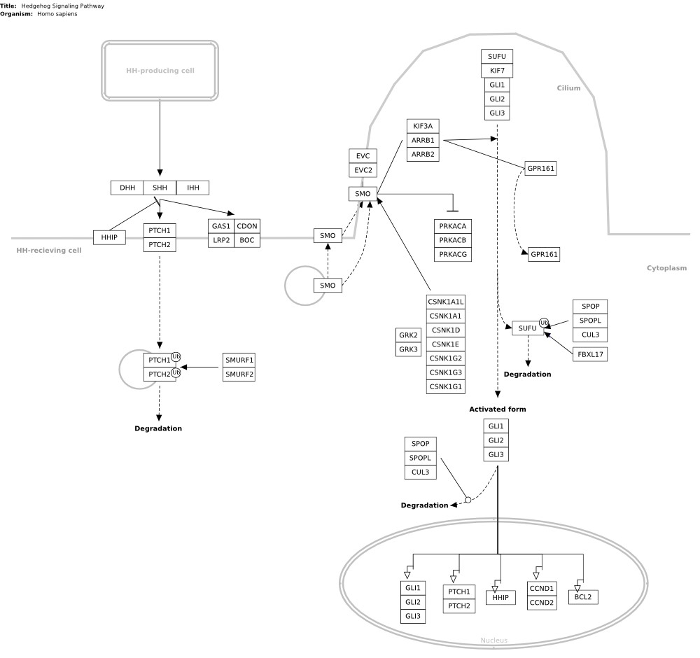 The Hedgehog (Hh) signaling pathway has numerous roles in the control of cell proliferation, tissue patterning, stem cell maintenance and development. The primary cilium is an important center for transduction of the Hedgehog signal in vertebrates. In Hh's absence, the Ptch receptor localizes to the cilium, where it inhibits Smo activation. Gli proteins are phosphorylated by PKA, CKI and GSK3B and partially degraded into truncated Gli repressor form (GliR) that suppresses Hh target gene transcription in the nucleus. In Hh's presence, Ptch disappears from the cilium, and activated Smo contributes to the translocation of the protein complex Gli, Sufu, Kif7 to ciliary tip, where Gli dissociates from the negative regulator Sufu. The production of Gli activator form (GliA) occurs and the increased nuclear accumulation of GliA results in activation transcription of Hh target genes. Pathway adapted from KEGG